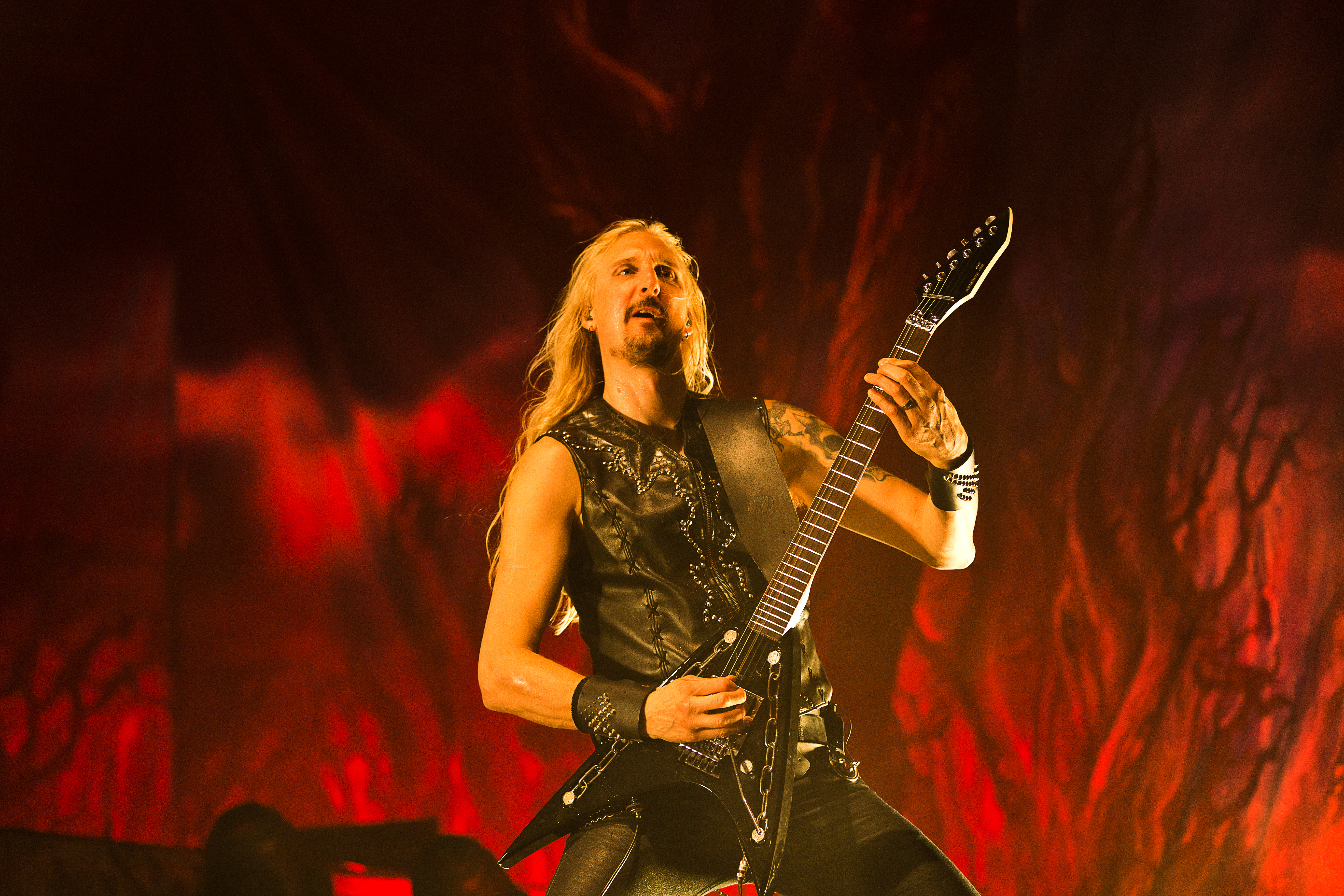 The Swedish power metal band Hammerfall at the Rockharz Open Air 2015 in Ballenstedt/Germany.